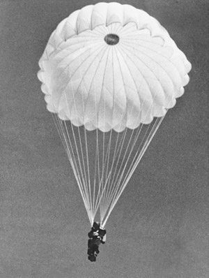 Sourced from: Copyright: The AWM record for this photo states that the copyright status is 'clear'. The photo was taken in 1945. AWM Caption: LEYBURN, QUEENSLAND. 1945. VX16310 CORPORAL ROLAND GRIFFITHS-MARSH DURING PARACHUTE TRAINING WITH Z SPECIAL UNIT BEFORE HIS INSERTION BEHIND ENEMY LINES IN BORNEO EARLY IN 1945. (DONOR R. GRIFFITHS-MARSH)